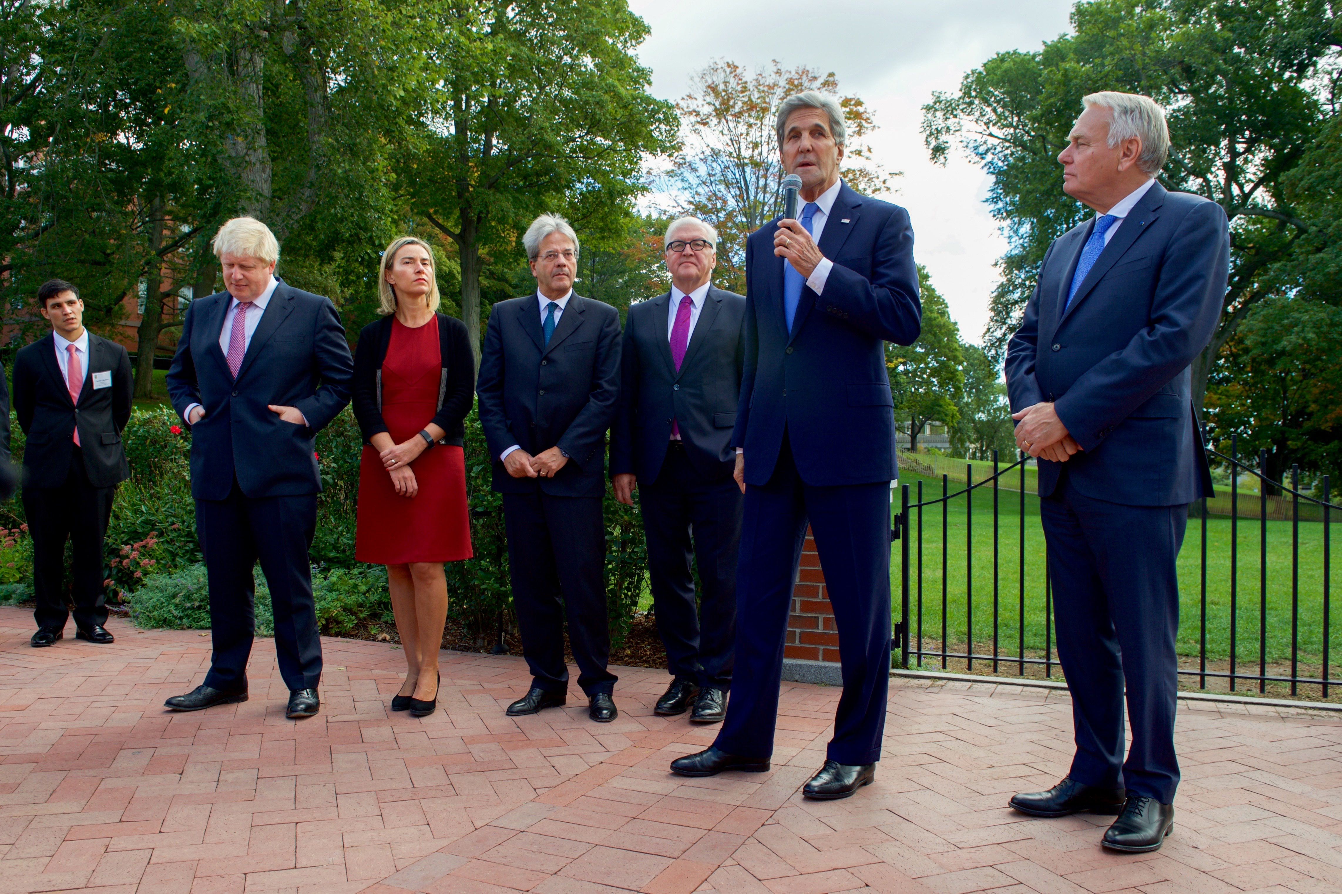 U.S. Secretary of State John Kerry, flanked by the Foreign Ministers from the the United Kingdom, France, Germany, Italy, and the European Union, addresses students from the Fletcher School of Law and Diplomacy and Tisch College on September 24, 2016, at Gifford House on the campus of Tufts University in Medford, Mass., before a meeting of the so-called Quintet in the Secretary's home-state of Massachusetts. [State Department photo/ Public Domain]